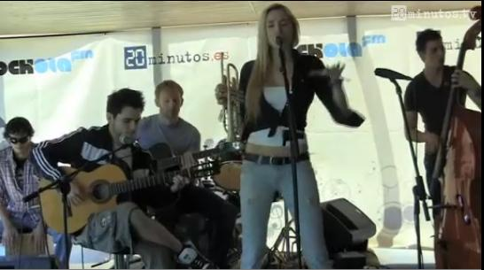 the Mexican-Spanish-English group Jenny and the Mexicats in performance